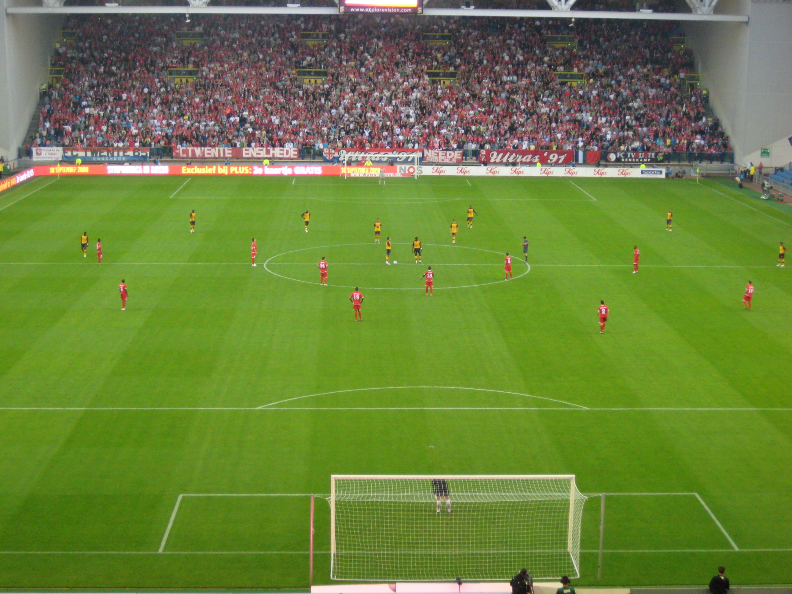 Start of the match between FC Twente and Arsenal